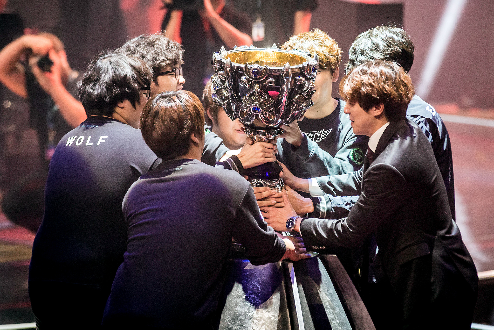 Players for SK Telecom T1 holding the trophy at the 2015 League of Legends World Championship 500px provided description: 1cun0606 Jpg [#lol ,#final ,#s5 ,#Berlin ,#Final]